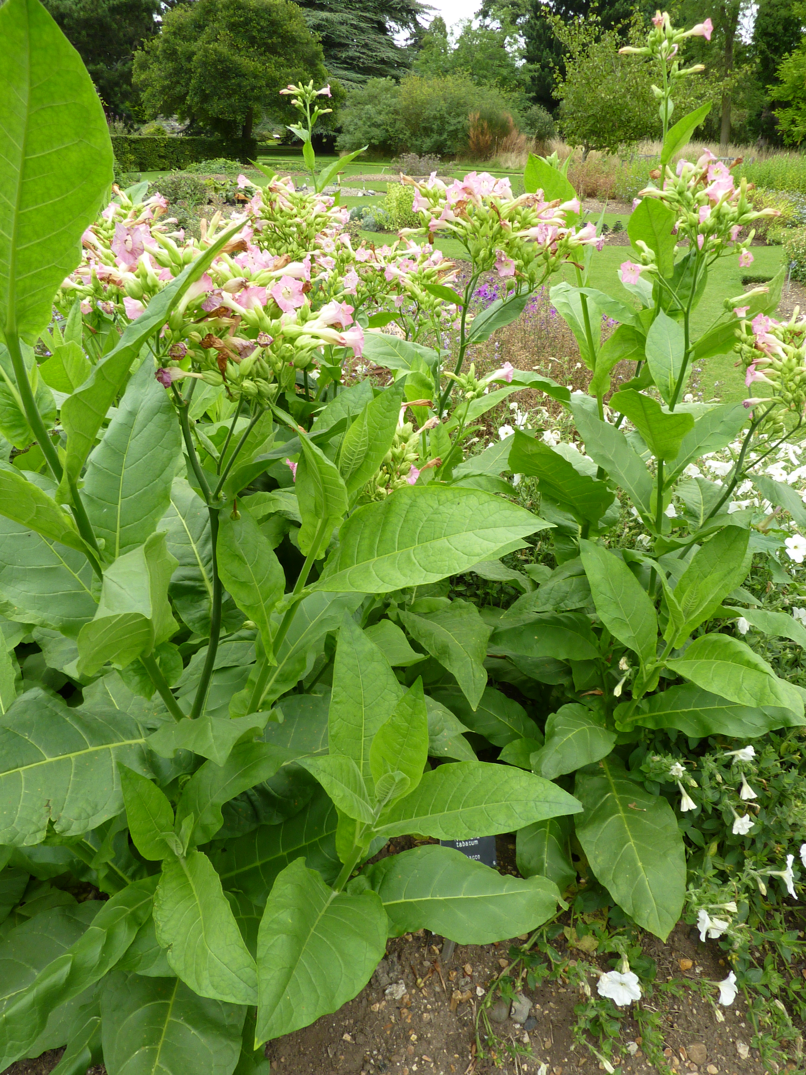 Nicotiana tabacum, Cambridge University Botanic Garden